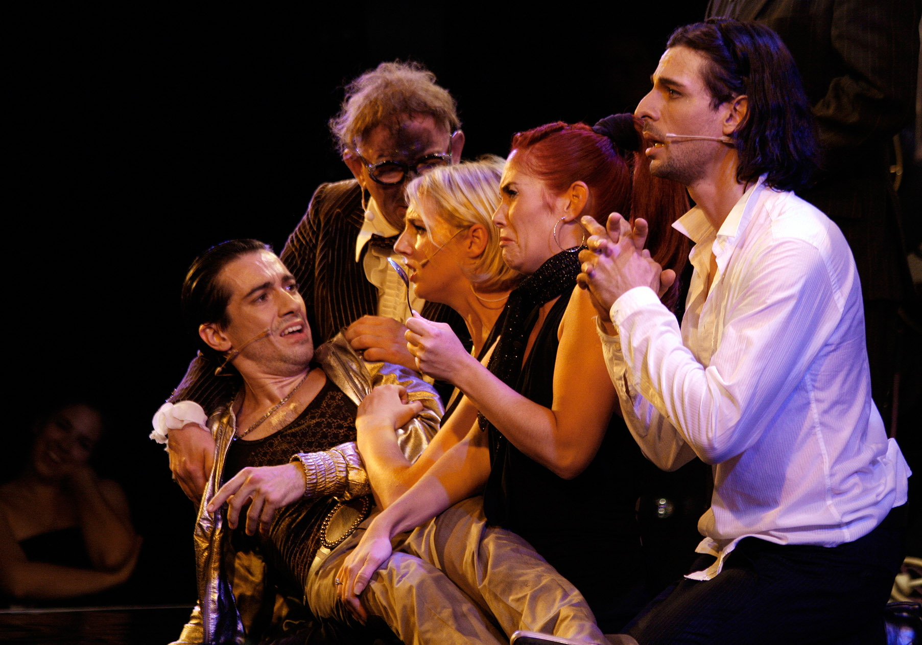 Stefano Bernardin, Ronald Kuste, Bettina Mönch, Adriana Zartl and Pietro Erik Arno during the premiere of the second season of the musical comedy Ti Amo at the Metropol in Vienna.